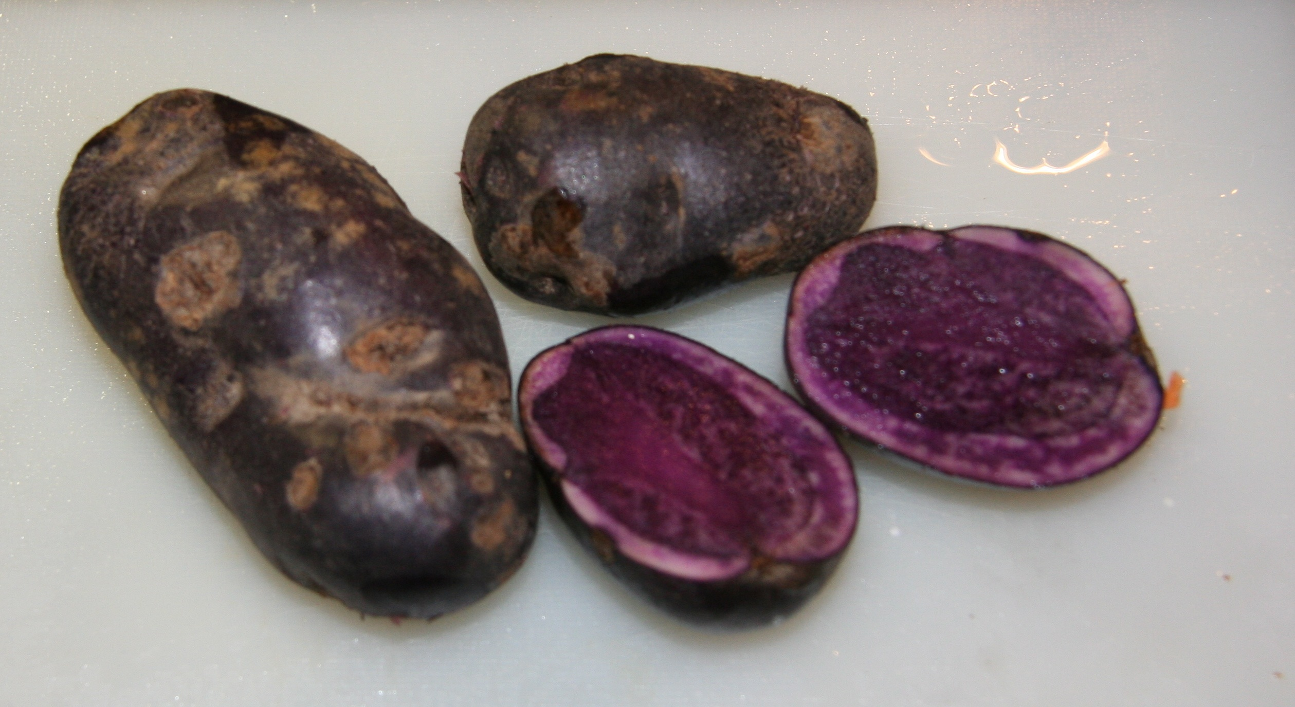 Raw potatoes of Blue Kongo variety